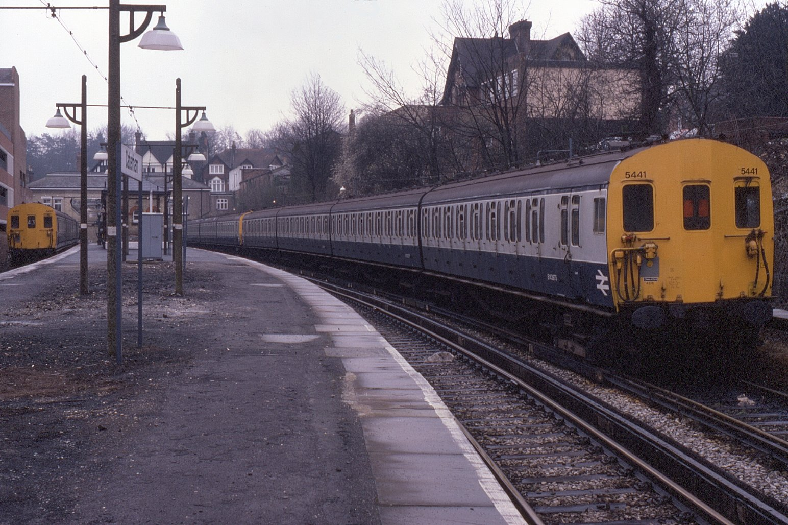 A collection of class 415 4EPBs at the Surrey branch line terminus of Caterham. Over on the left is unit 5452 on the 11:48 Caterham to Purley. On the right are two units with 5441 closest to the camera which would have been stabled there over the weekend. Date of photo, 31 March 1984.